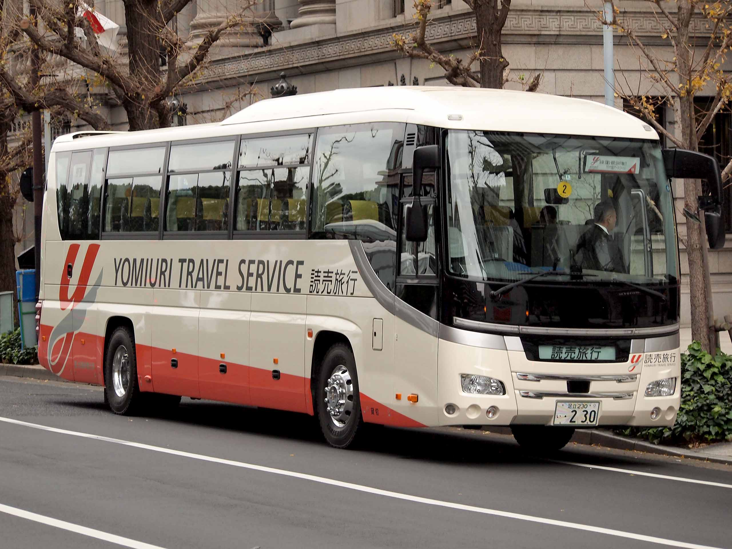 Fleet of Fuji Jidosha (Adachi, Tokyo), marked Yomiuri Travel Service. Model: Hino Selega HD RU1ES orRU1AS License plate: TKA230 I0230 Place: Marunouchi, Choyoda Ward, Tokyo Japan